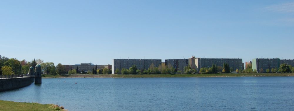 Reservoir Mšeno in Jablonec nad Nisou; Czechia